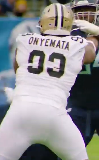 David Onyemata 2019. Image from video Titans Mic'd Up vs. Saints (Week 16) | Sounds of the Game, ~ 00:41.